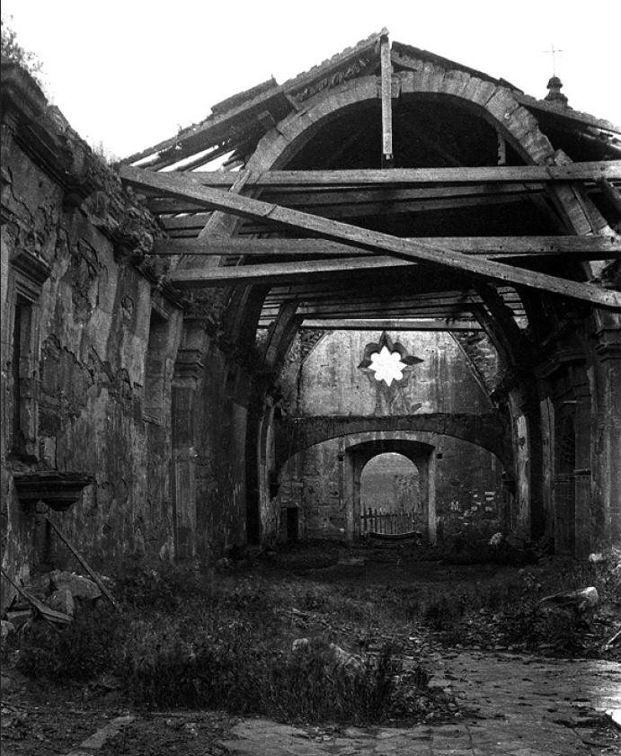 Interior view of the façade of the capilla (chapel) at Mission San Carlos Borromeo de Carmelo in 1880 prior to restoration.